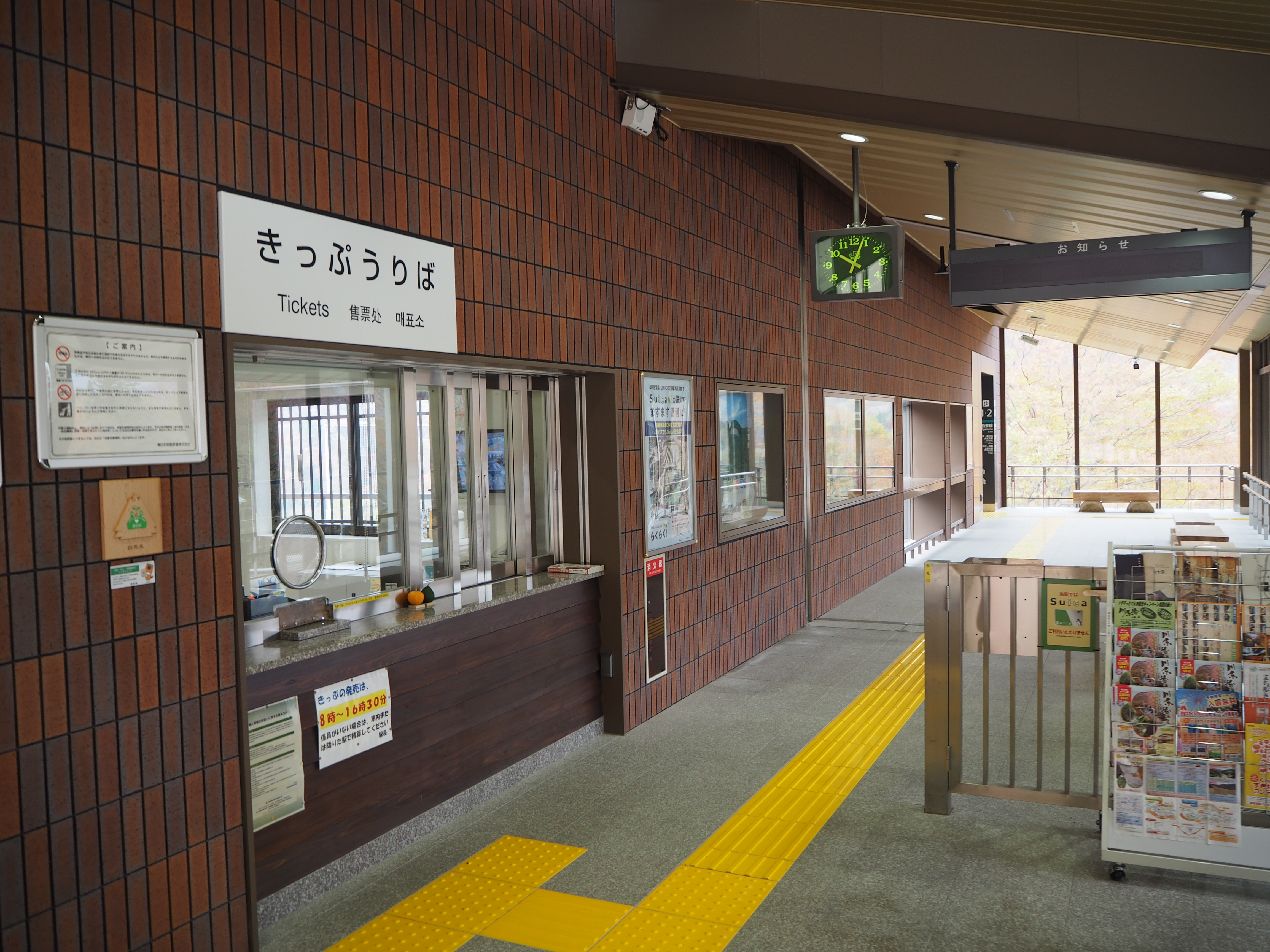 Ticket gate of Kawarayu-Onsen Station